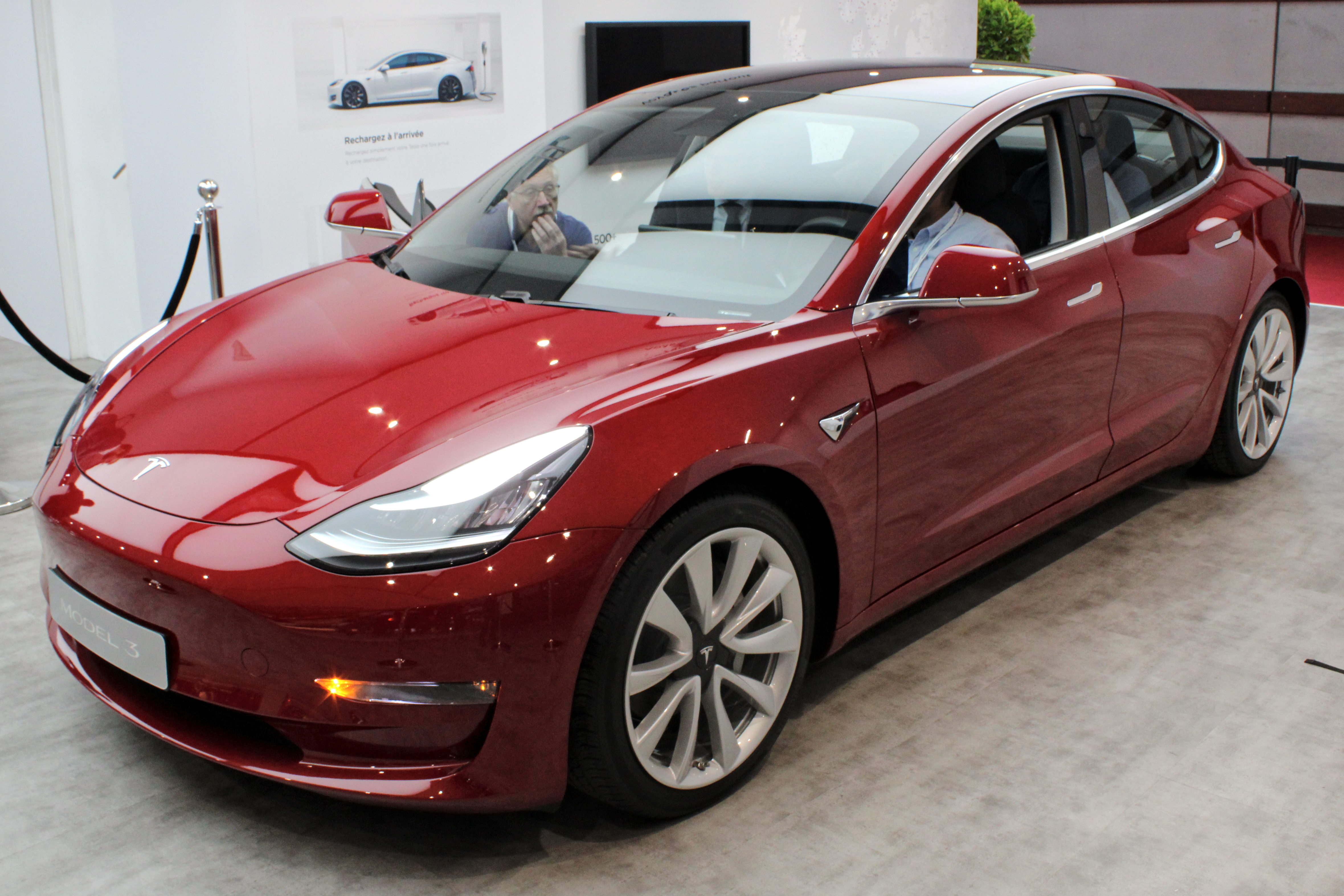 Tesla Model 3 at Paris Motor Show 2018